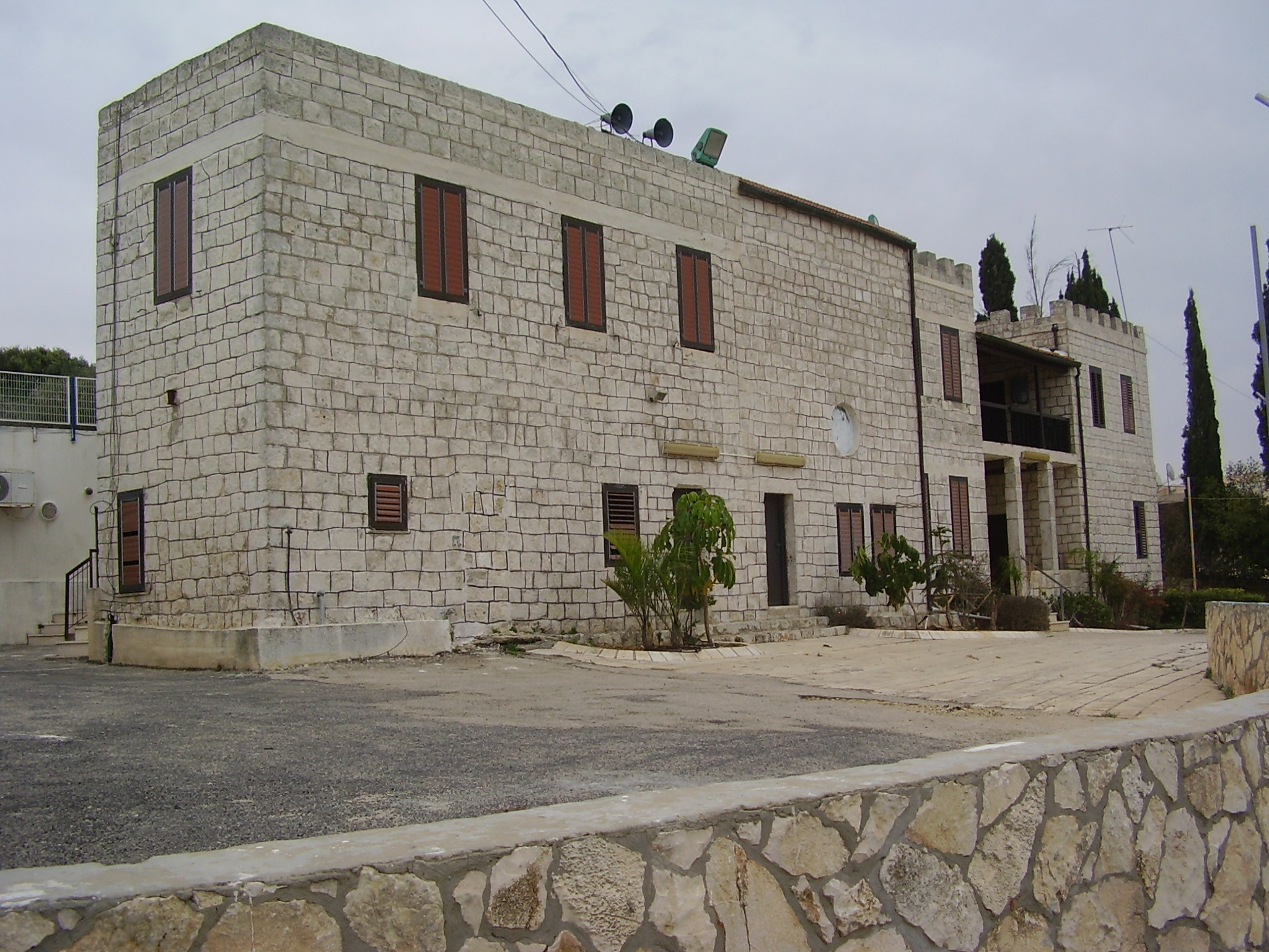 oliphant house in dalit el carmel